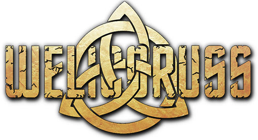 Logo of Russian symphonic black / pagan metal band Welicoruss